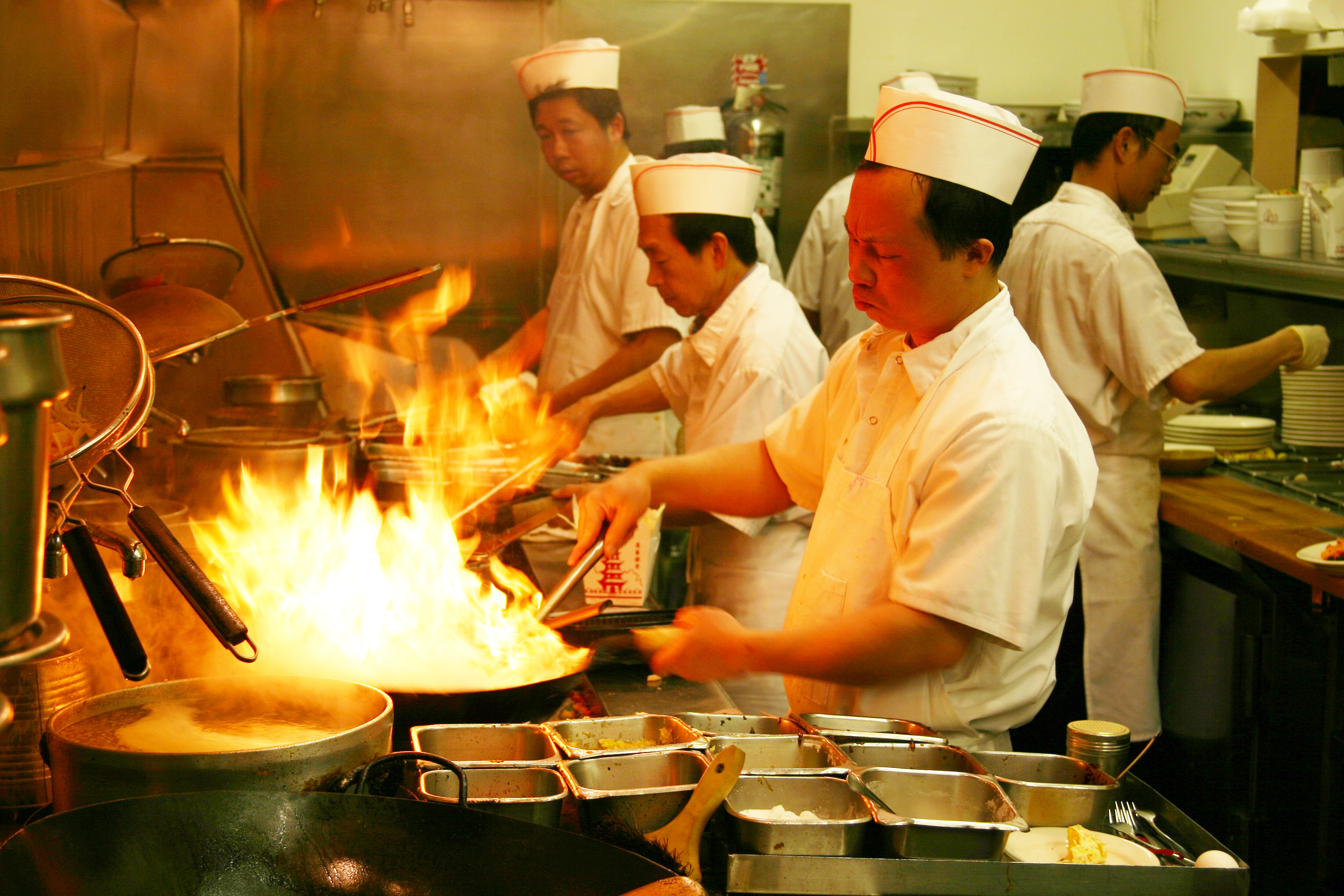 I took this for a restaurant in Bountiful called the Mandarin. If you ever get a chance, it's the best chinese food in the west. See their site for more info.